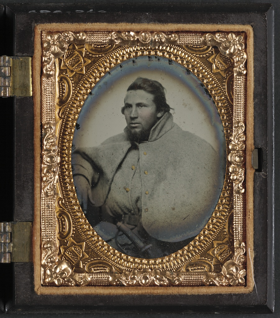 Title: Unidentified soldier in 1st Virginia cavalry great coat Abstract/medium: 1 photograph : ninth-plate ambrotype, hand-colored ; 7.8 x 6.8 cm (case)